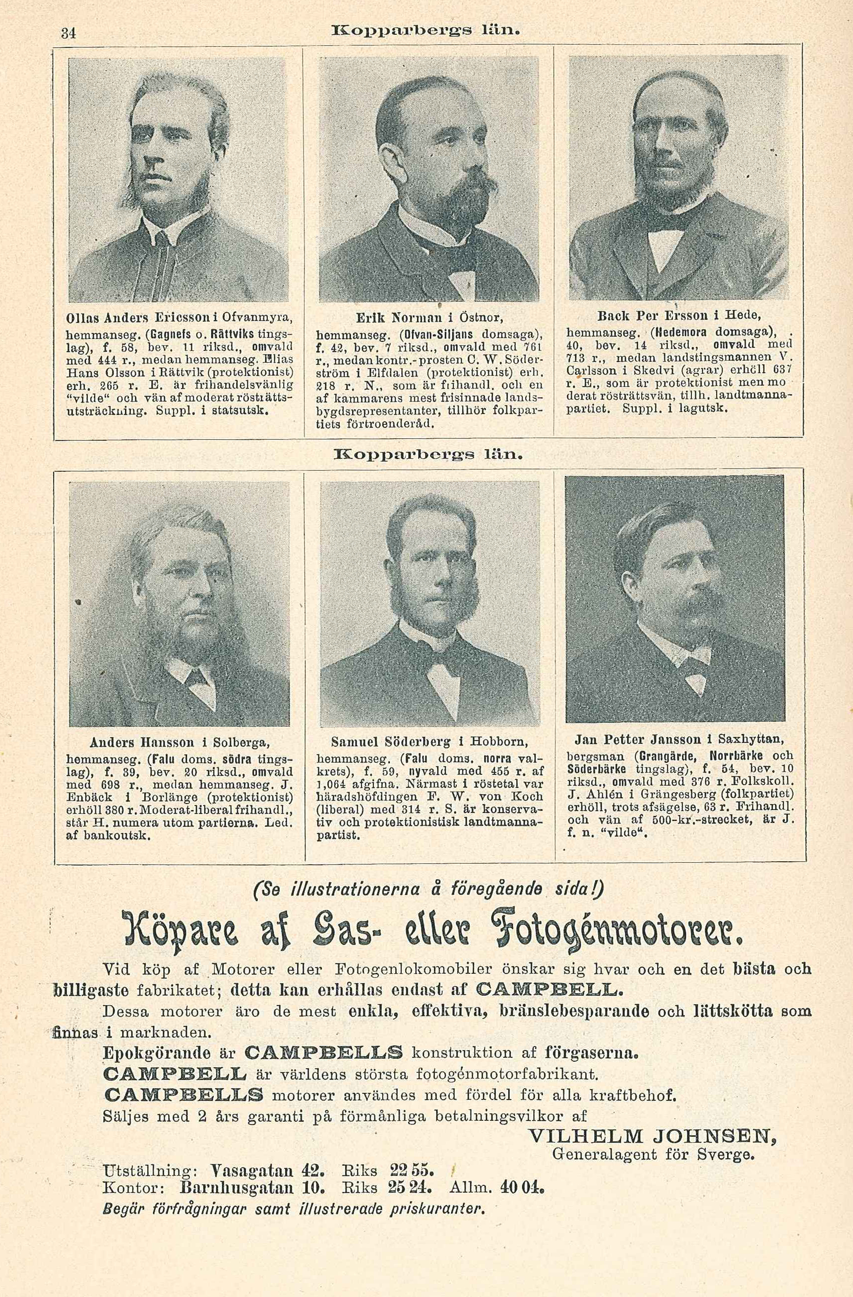 Page 34 of an album featuring portraits of all the members of the second chamber of the Swedish parliament (Sveriges riksdag) elected in 1897. This page featuring parts of the members representing the county of Kopparberg.